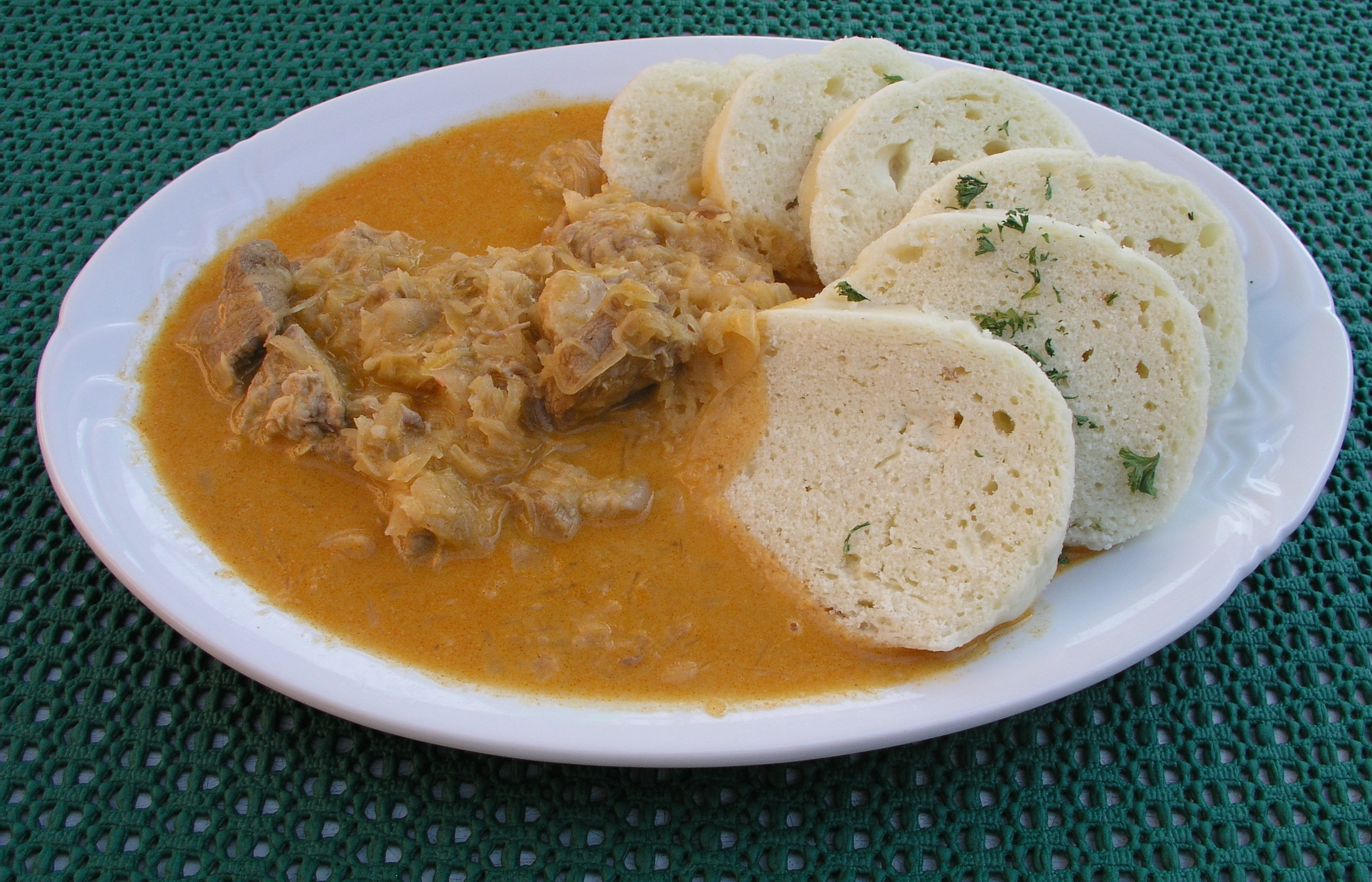 Stew of pork, sauerkraut, paprika and sour cream. With Czech dumplings.